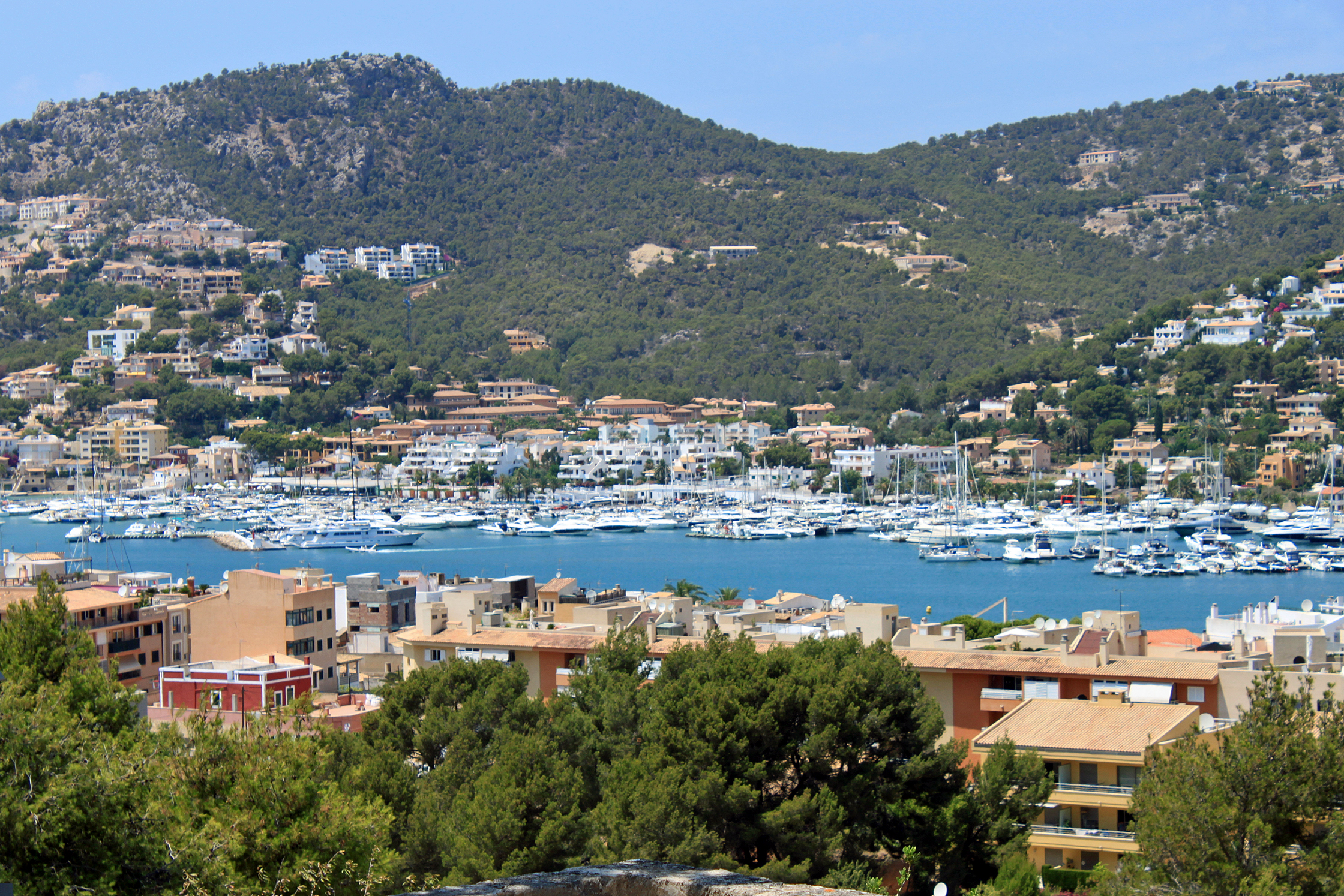 Puerto de Andratx, Mallorca, 2013